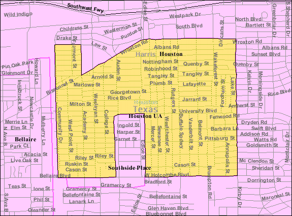 Map of West University Place, Texas